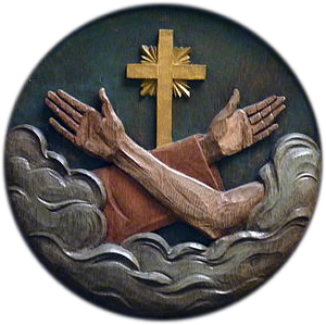 Coat of arms of Franciscan Order : OFM Holy Name Province - San Damiano Hall Provincial Offices